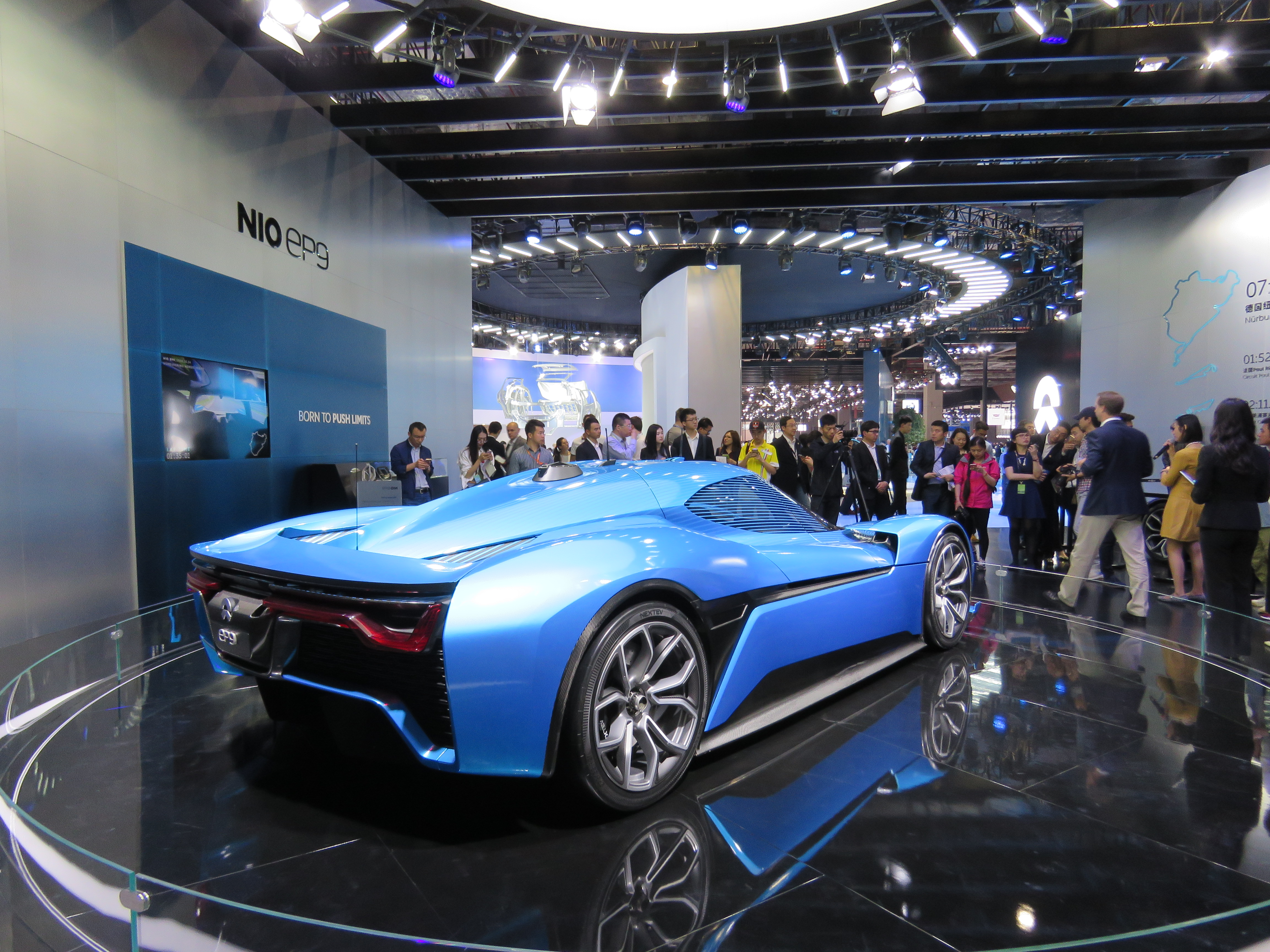 NIO EP9